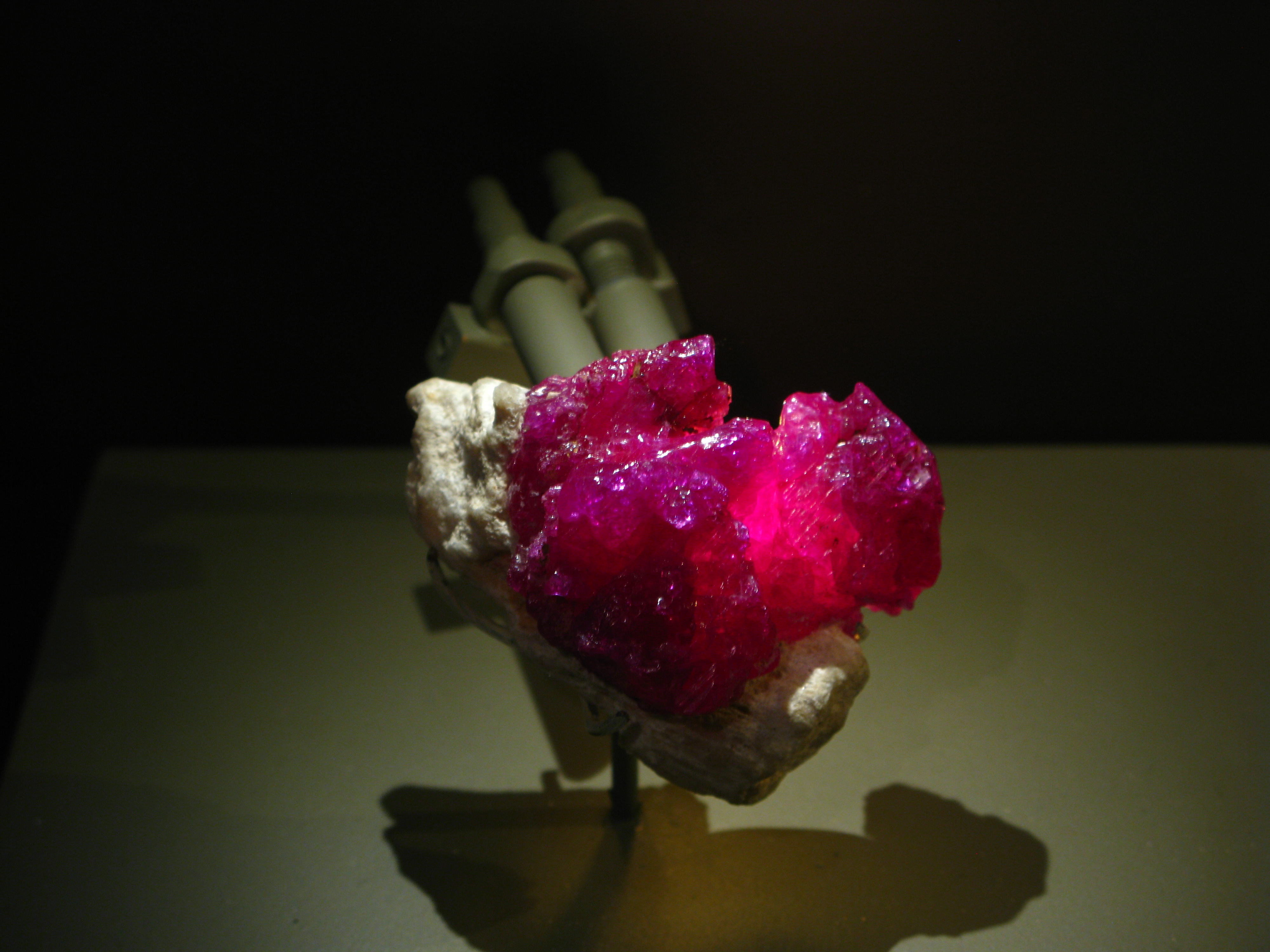 Ruby within white marble Burma